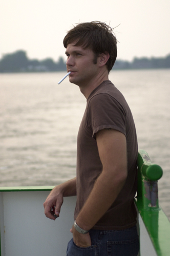 Actor Matthew Davis from the independent film "Mentor," shot in St. Michaels MD, August 2005, by the author.